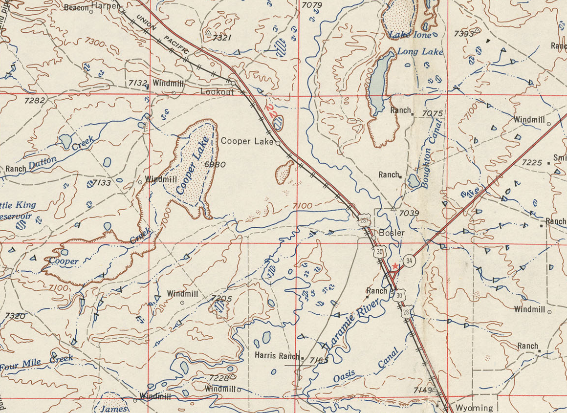 Excerpt of 1954 USGS Topgraphic Map (Cheyenne Quadrant)